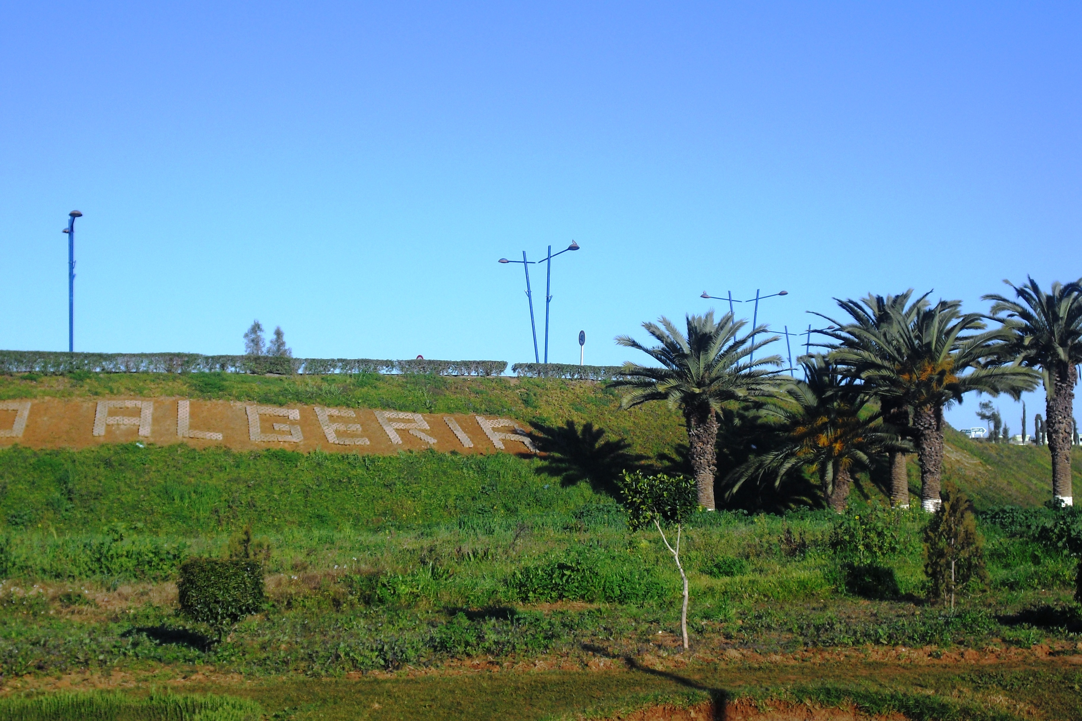 Algiers Houari Boumediene Airport